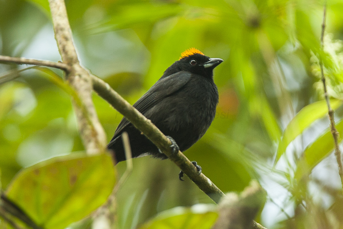 Tawny-crested Tanager - Panama_H8O0191